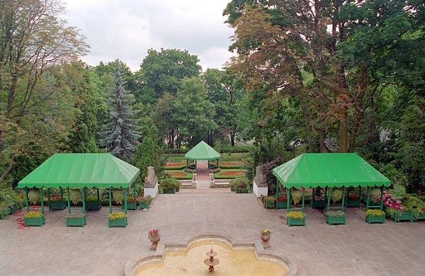 Presidental Palac in Warsaw